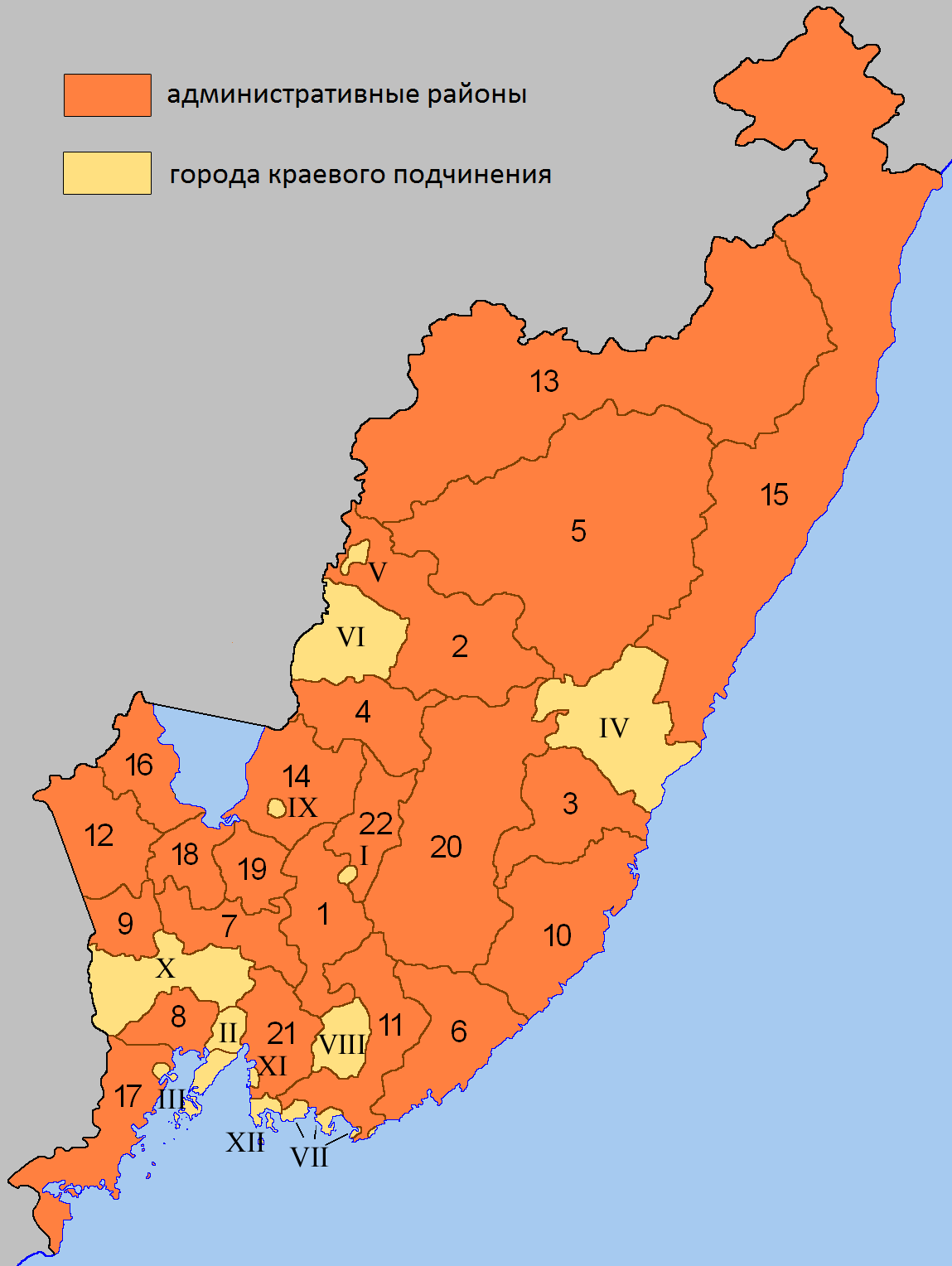 Map of Primorsky krai with district subdivision